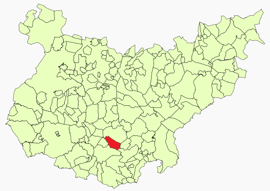 Bienvenida